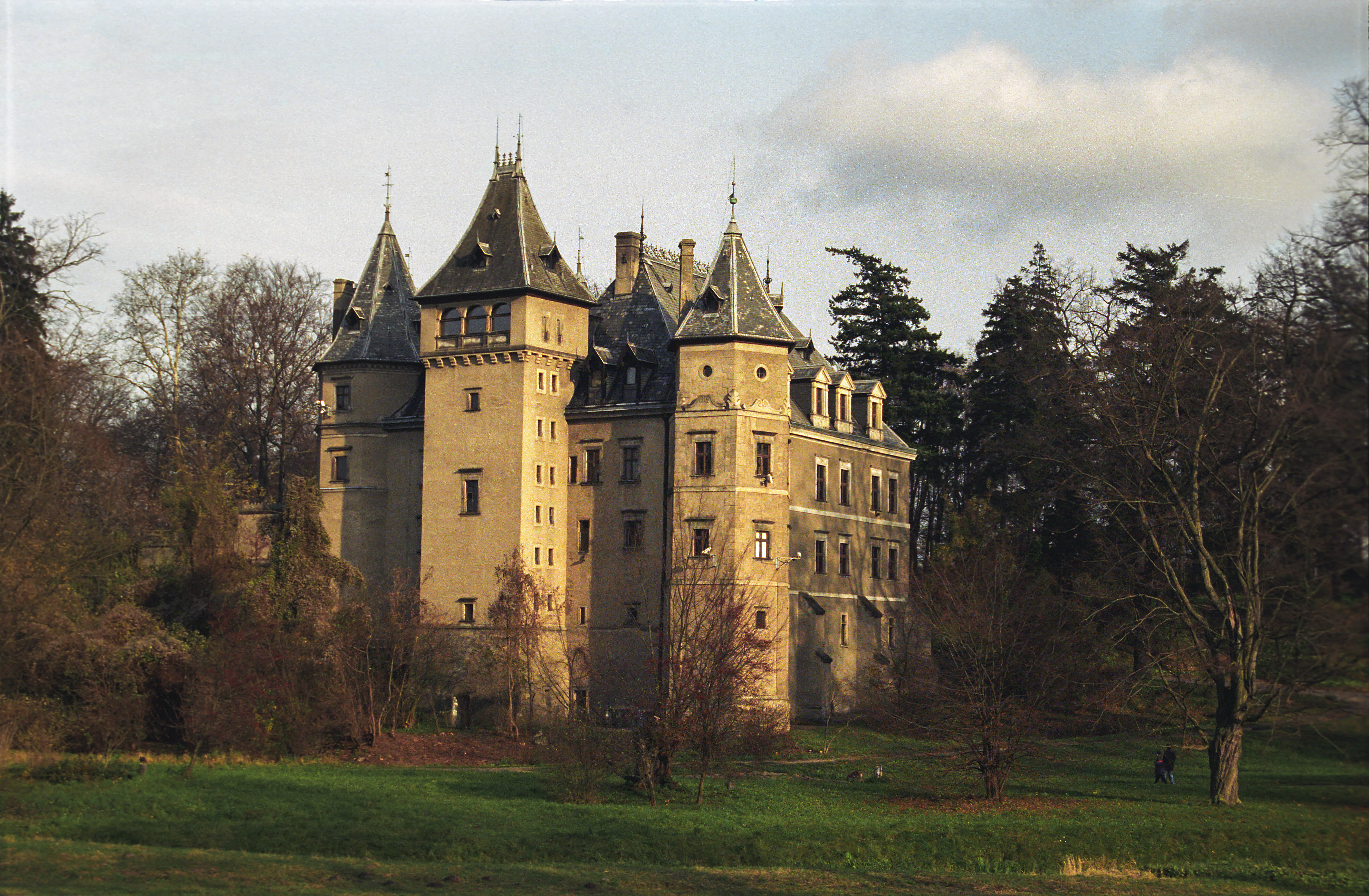 Poland, Goluchow Castle